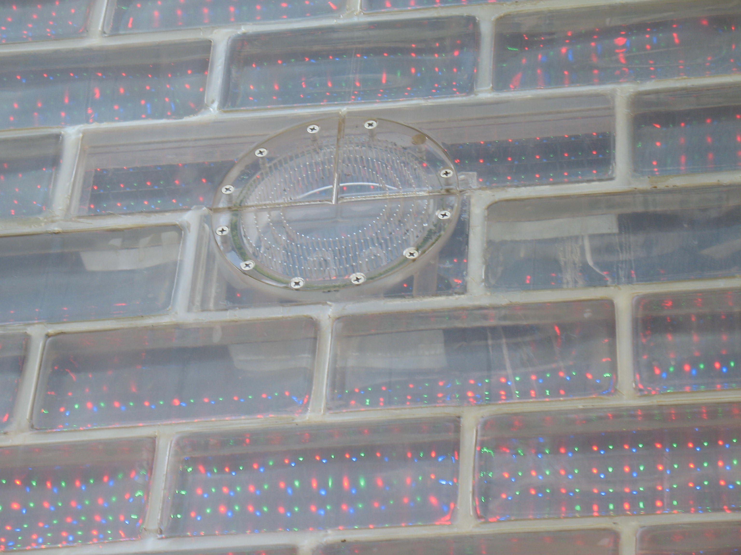 Crown Fountain